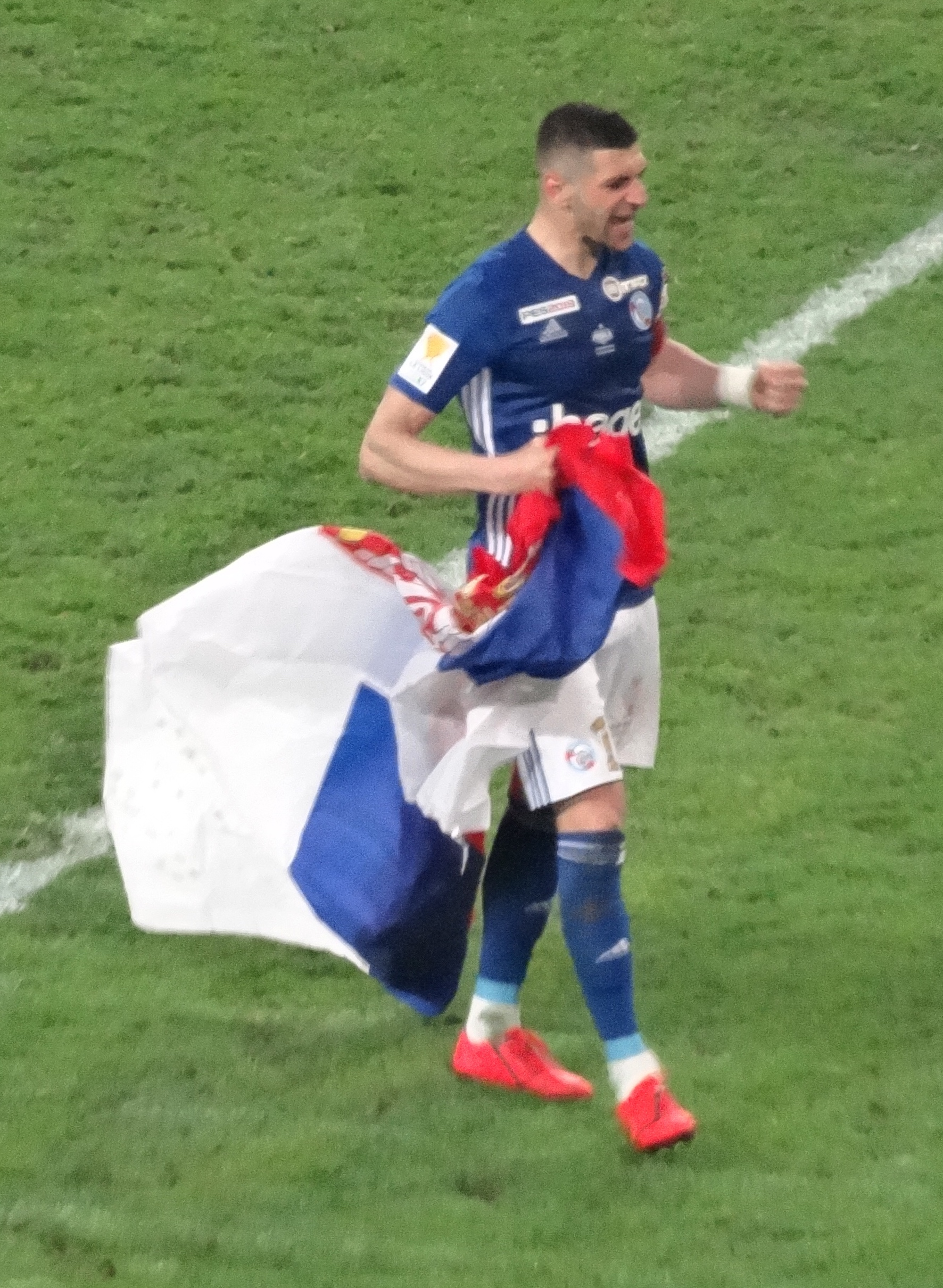 Stefan Mitrović (french League Cup 2019)